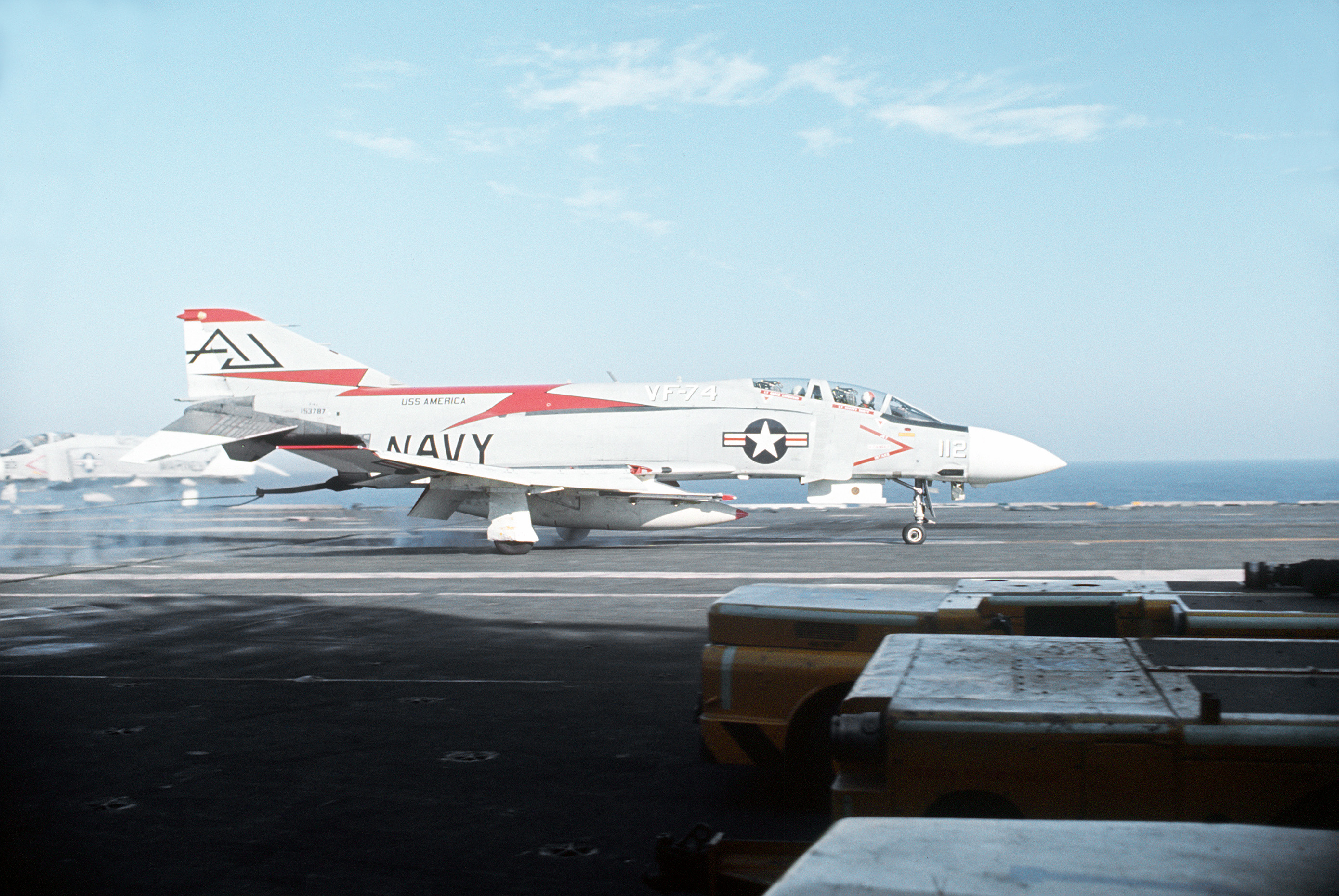 A U.S. Navy McDonnell F-4J-29-MC Phantom II (BuNo 153787) from Fighter Squadron 74 (VF-74) "Be-Devilers" lands aboard the aircraft carrier USS America (CVA-66). VF-74 was assigned to Attack Carrier Air Wing Eight (CVW-8) aboard the America for a deployment to Vietnam from 5 June 1972 to 24 March 1973. Note: The date given (15 Oct 1987) is incorrect, since VF-74 was stationed aboard USS America in 1972-73 during the deployment to Vietnam. In 1987, VF-74 was flying F-14A Tomcats from USS Saratoga (CV-60) as part of Carrier Air Wing 17 (Tailcode 'AA'). The F-4J 153787 hab been converted to a F-4S in 1987. The aircraft was later converted, again, to a QF-4S target drone and went out of service on 21 July 2000.